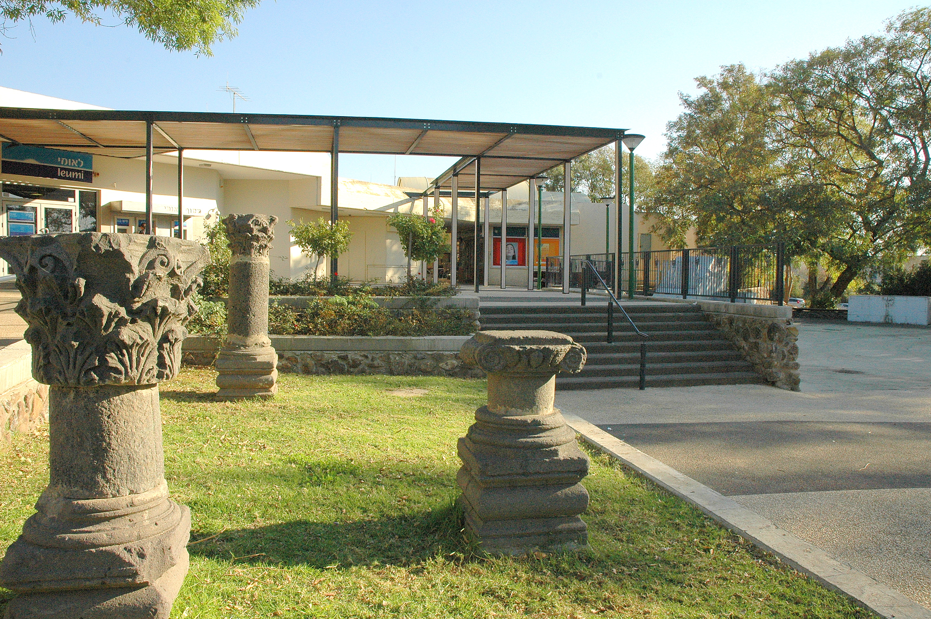 Entrance to Katzrin shopping mall, Katzrin city center, Golan Heights